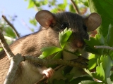 A Key Largo Woodrat in close view.